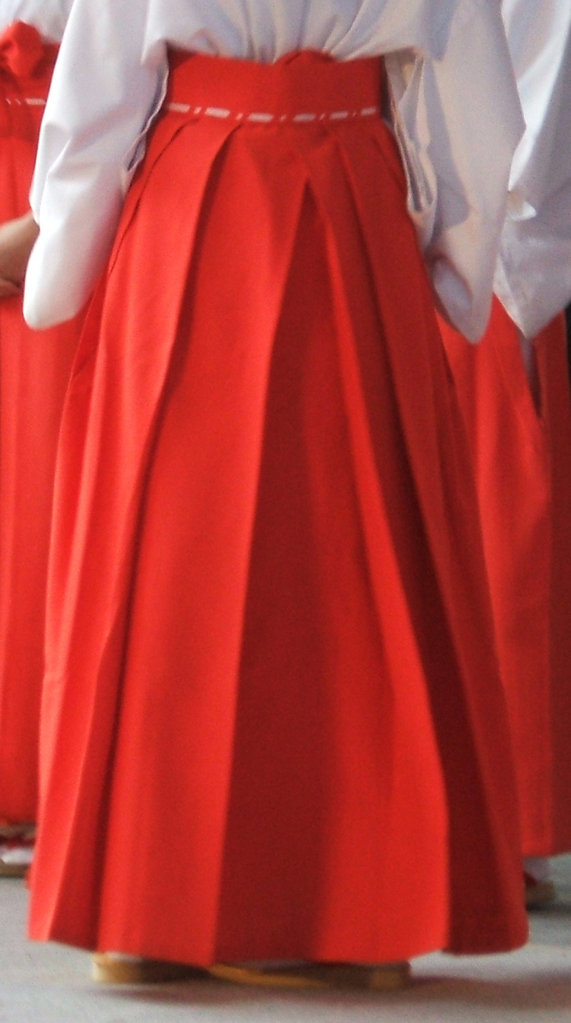 A view of a miko (shrine maiden) wearing a bright red hakama, from behind.